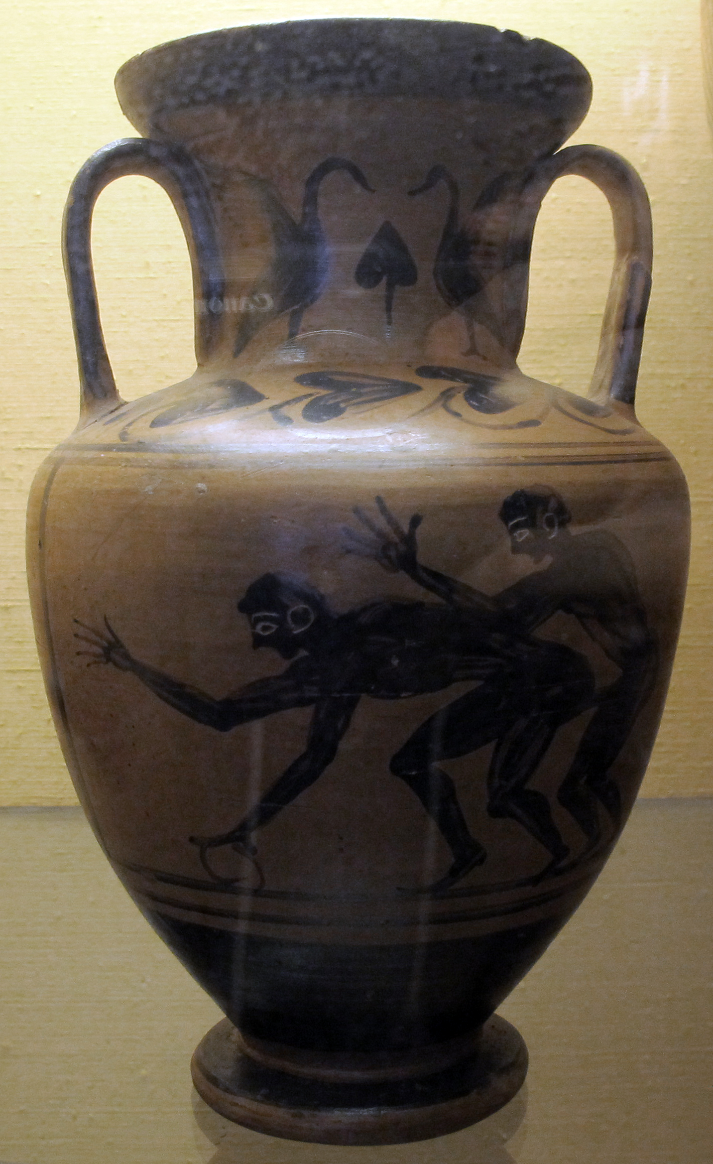 Secret Cabinet in the Museo Archeologico (Naples)